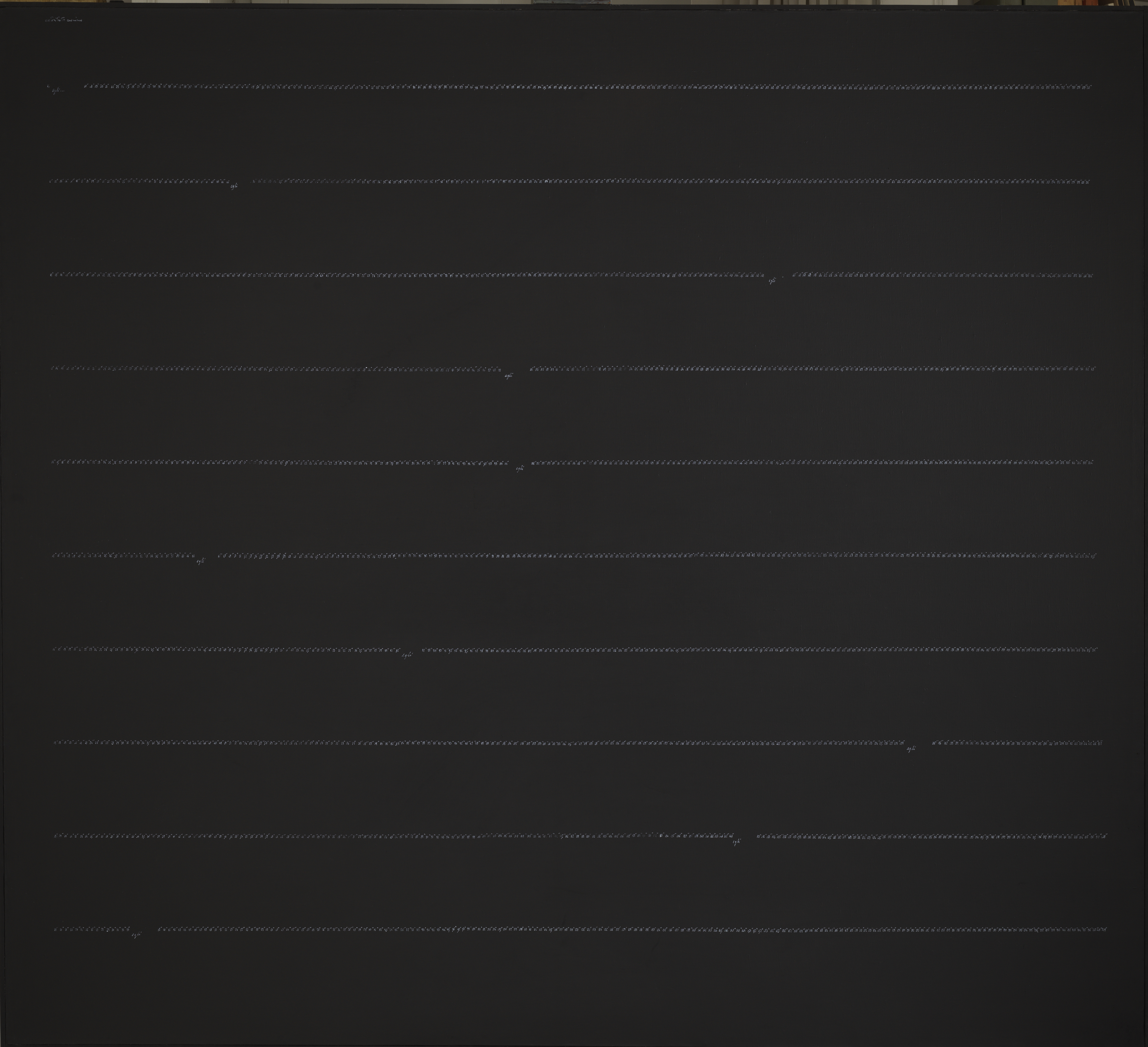 autorizzazione all’uso nell’ambito della licenza Creative Commons CC BY-NC-ND, la nostra referenza è Archivio dell’Arte / Pedicini